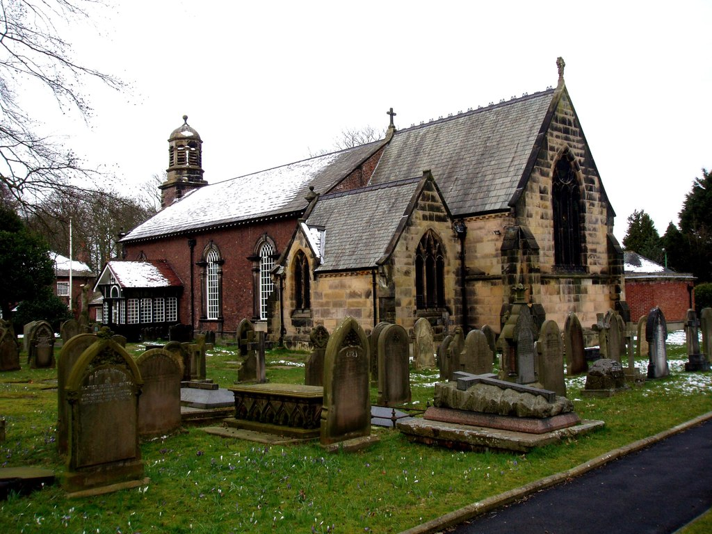 St Peter's parish church, Formby, Merseyside seen from the southeast, showing the chancel and vestry added in 1873